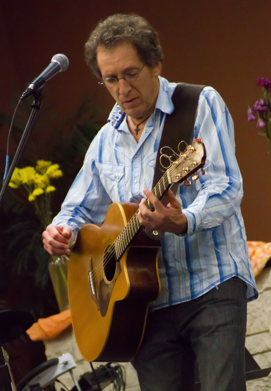 Randy Stonehill in concert at Calvary Chapel Fremont.